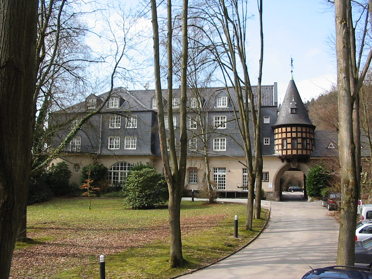 The former private home of the german industrial magnates Haniel, east-side